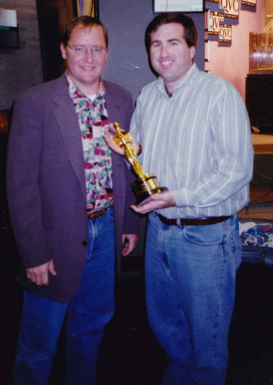 John Lasseter and QVC producer Jim Breslin in 1996